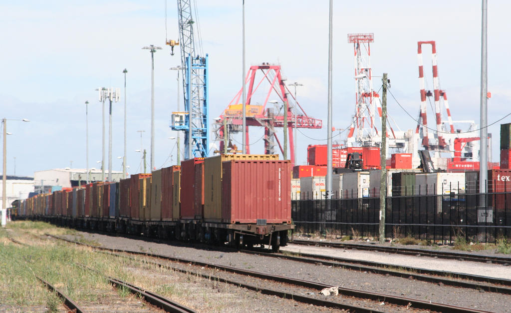 Freight wagons with containers at the Port of Melbourne